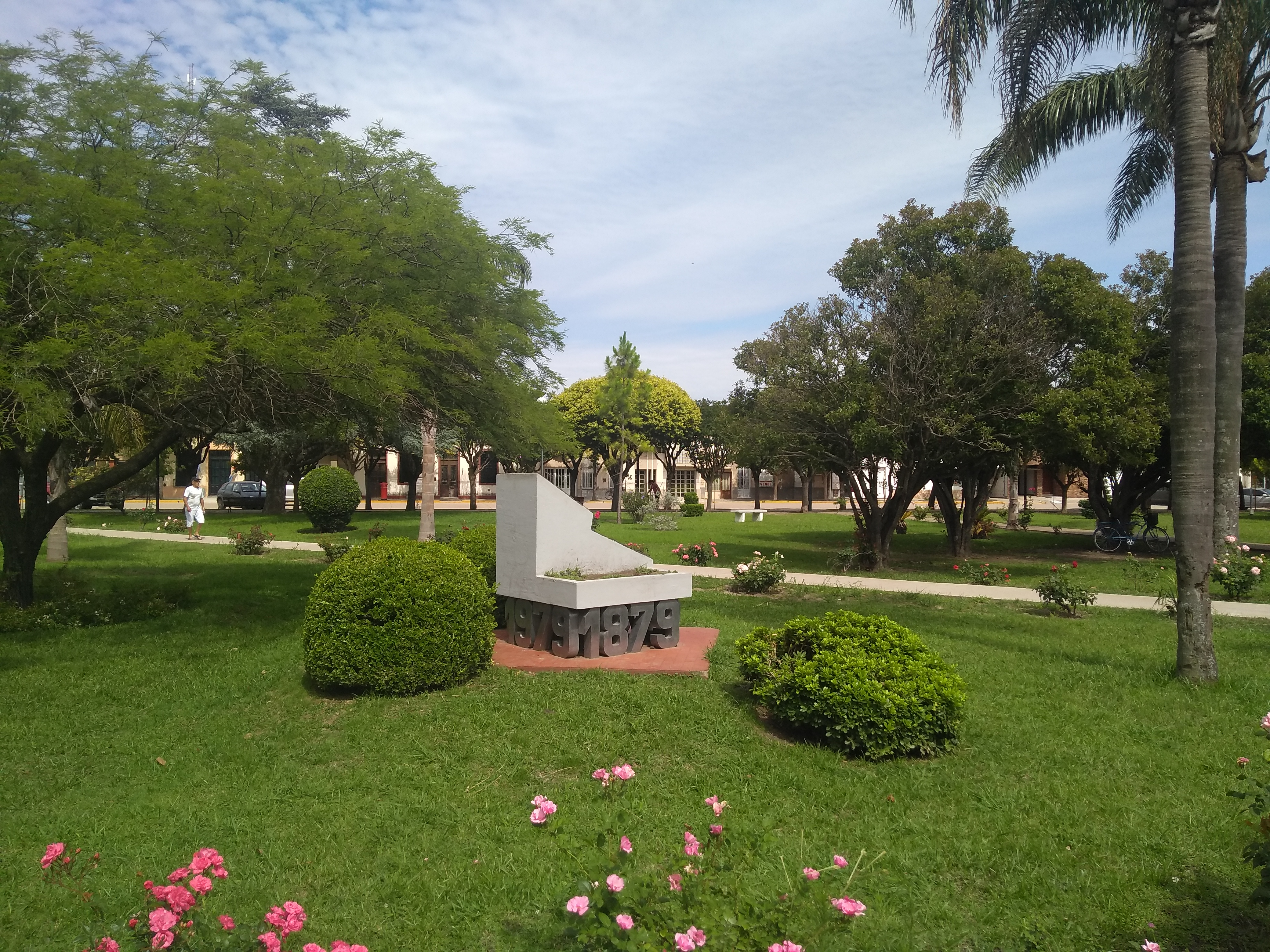 San Martín square, Pujato, Santa Fe, Argentina